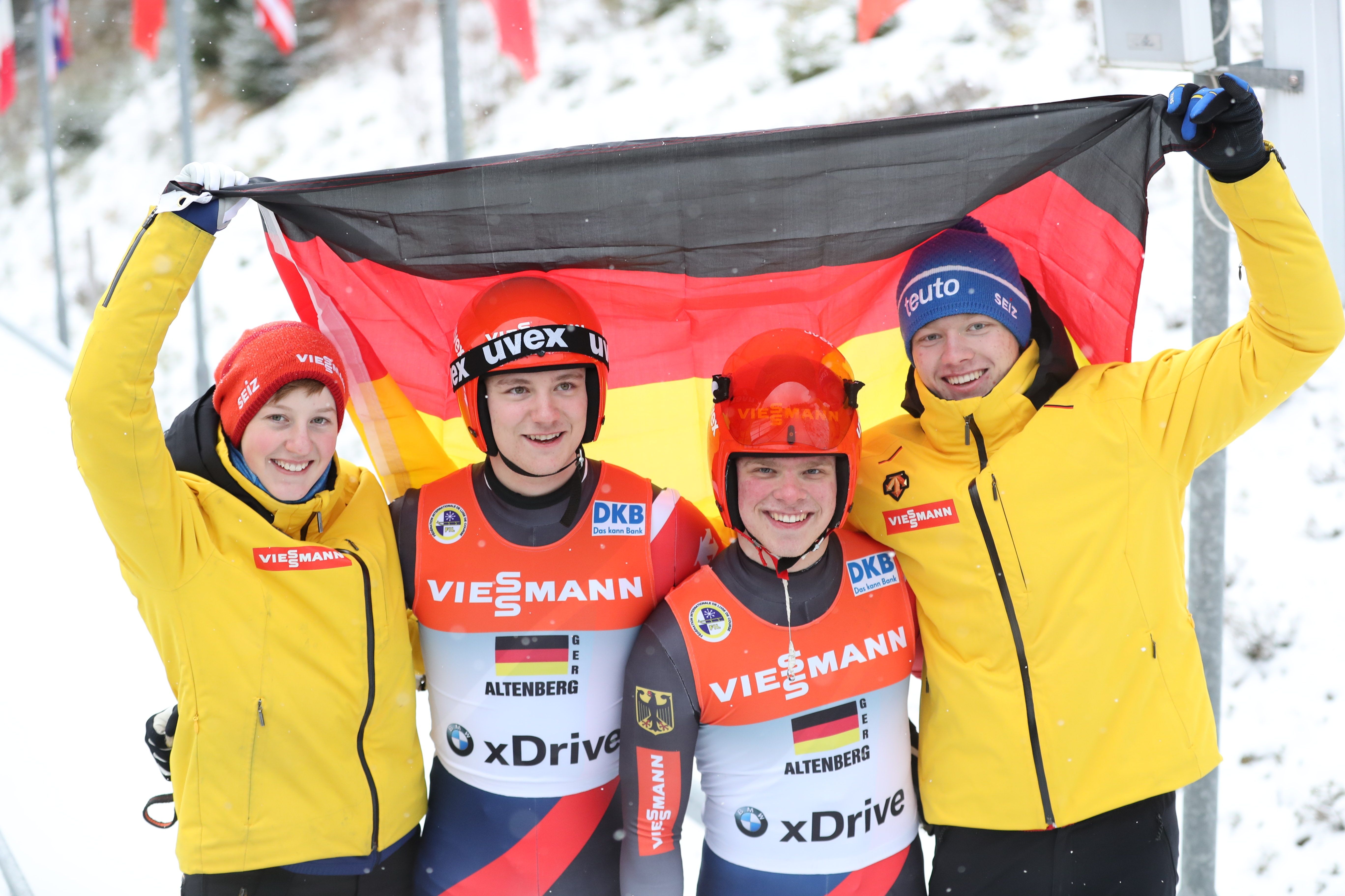 33rd Junior World Championship Luge, Altenberg 2018 – Team: Jessica Tiebel, Hannes Orlamünder, Paul Constantin Gubitz und Max Langenhan (GER)